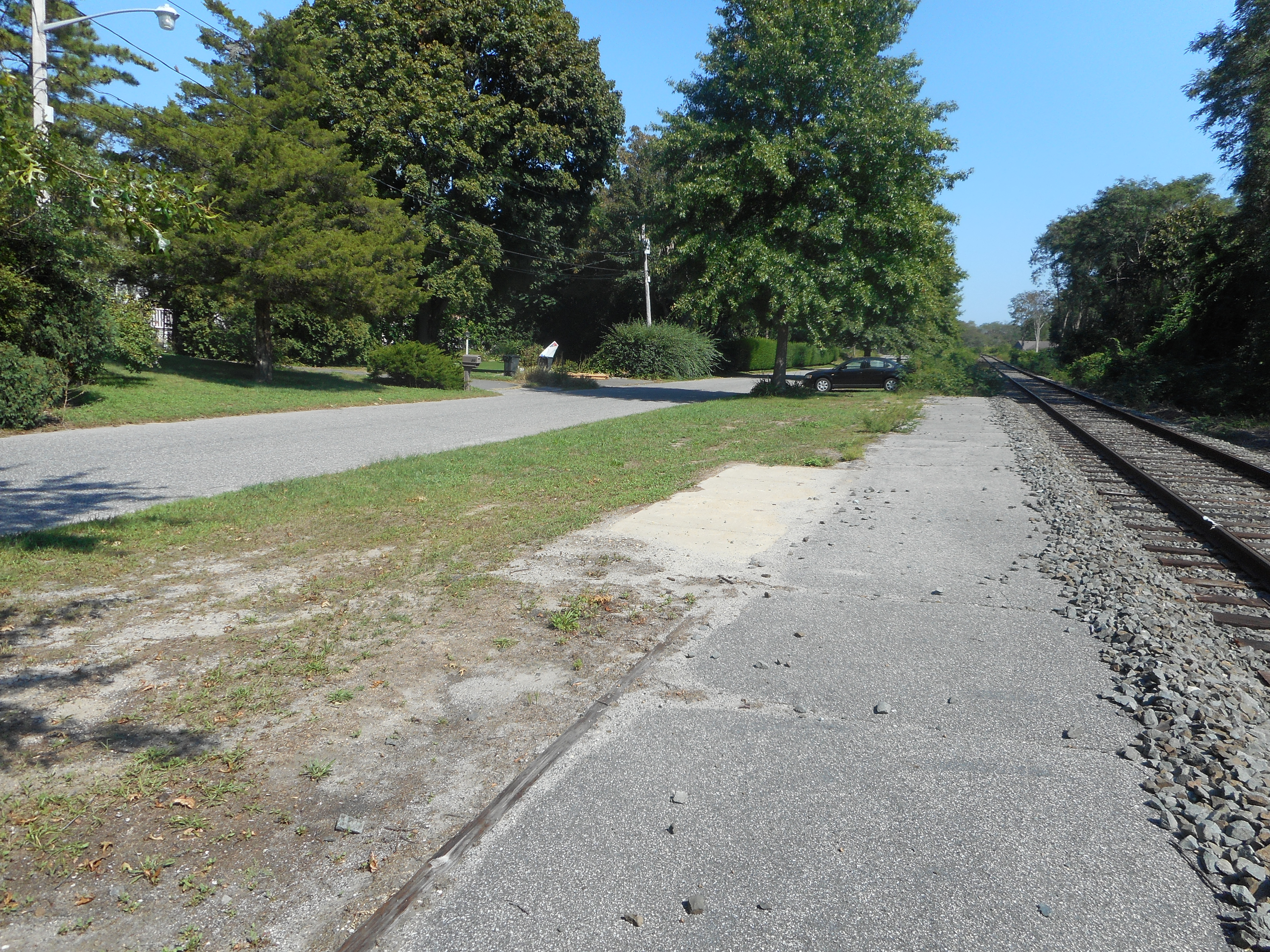 The third capture of the eastbound view of the Main Line of the Long Island Rail Road from the former site of the Jamesport LIRR station in Jamesport, New York. Until 1985 you could take this to Mattituck, Southold, or Greenport Stations. This was taken from the asphalt platform along the north side of the tracks and south side of North Railroad Avenue. That concrete platform behind it must've been for the Plexiglas shelter.